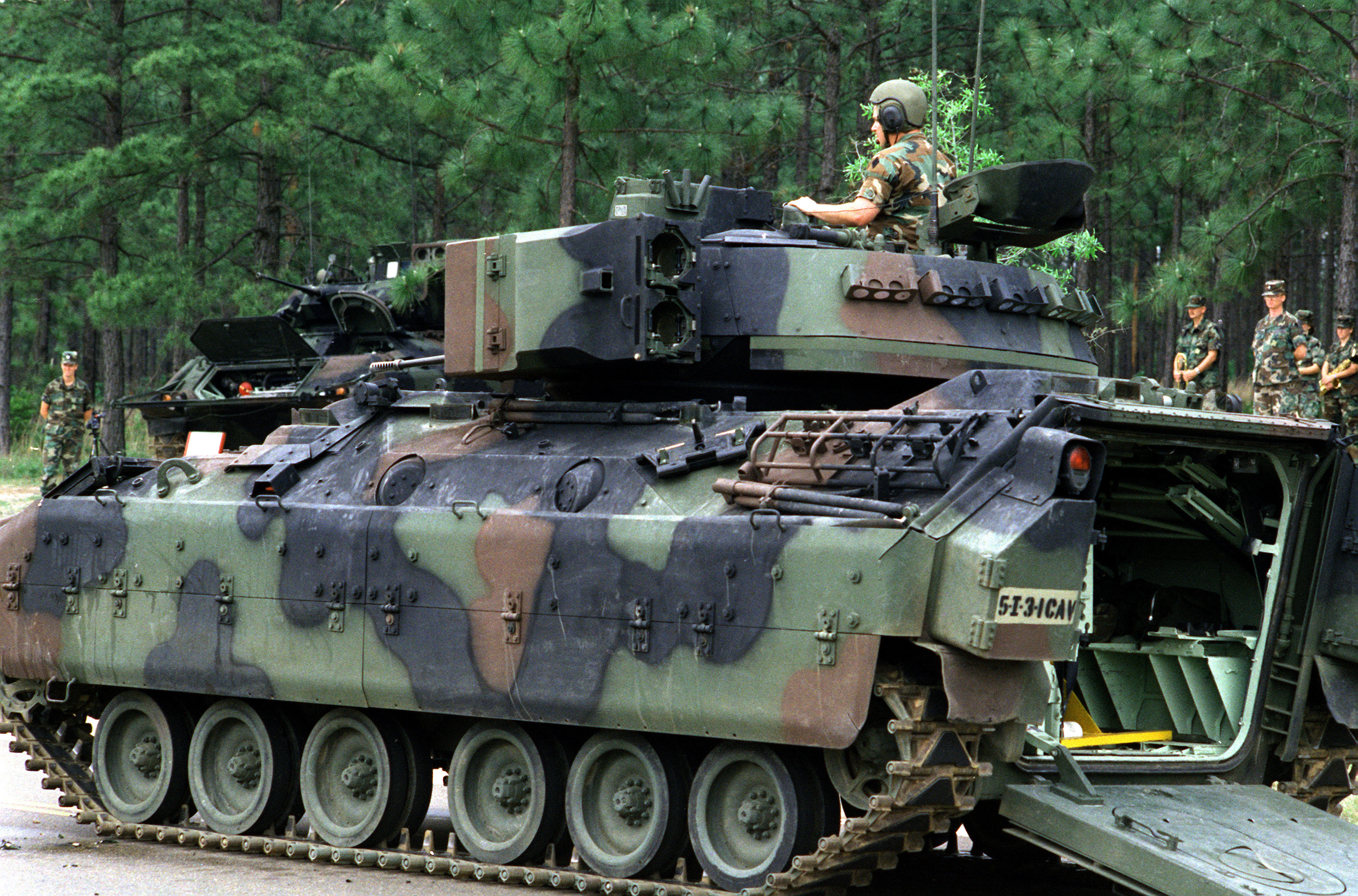 A rear view of the M3 Bradley fighting vehicle to be used by the 3rd Squadron, 1st Cav., 5th Infantry Division (Mech.).